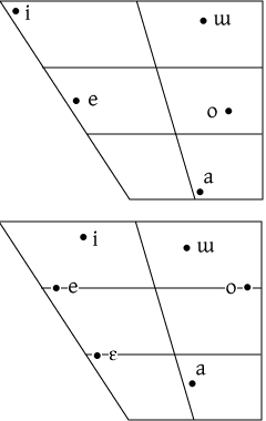 Vowels chart of Standard Japanese and Akita dialect